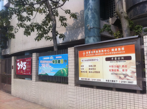 Kwun Tong Tsui Ping Road 基督教家庭服務中心 Christian Family Service Centre